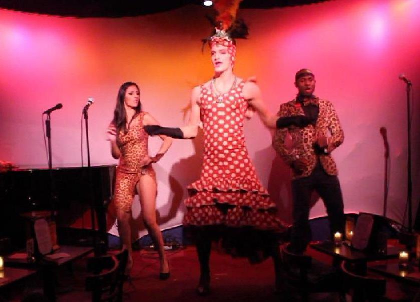 A drag queen (wearing Christer Lindarw's debut dress) and cast members do "Fever" (from Wild Side Story) in Cabaret Large A-Cup at The Metropolitan RoomPlace: New York City